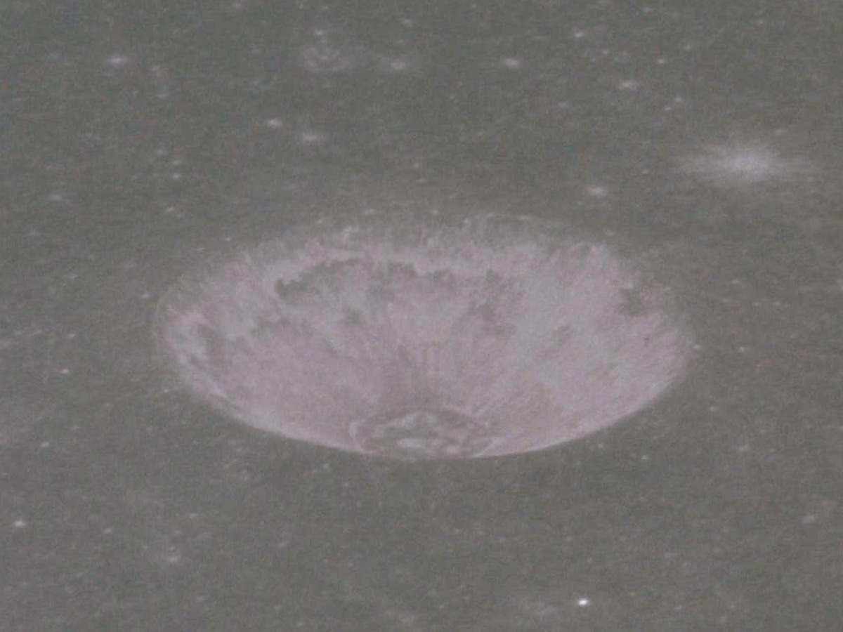 Oblique view of Taruntius H crater (near Taruntius), on the moon.